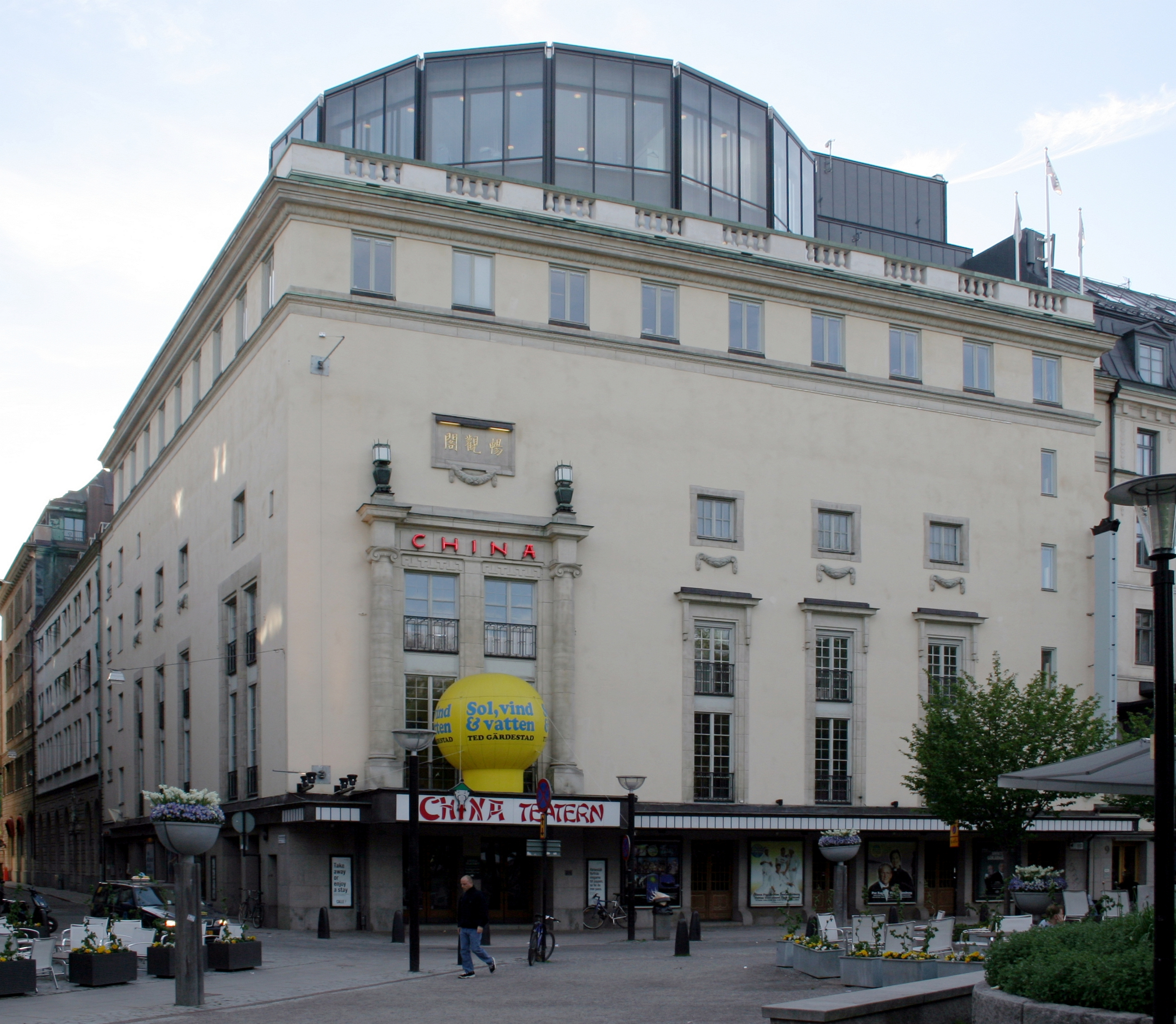 Chinateatern, Stockholm, Sweden. Theatre at Berzeliipark, Stockholm.